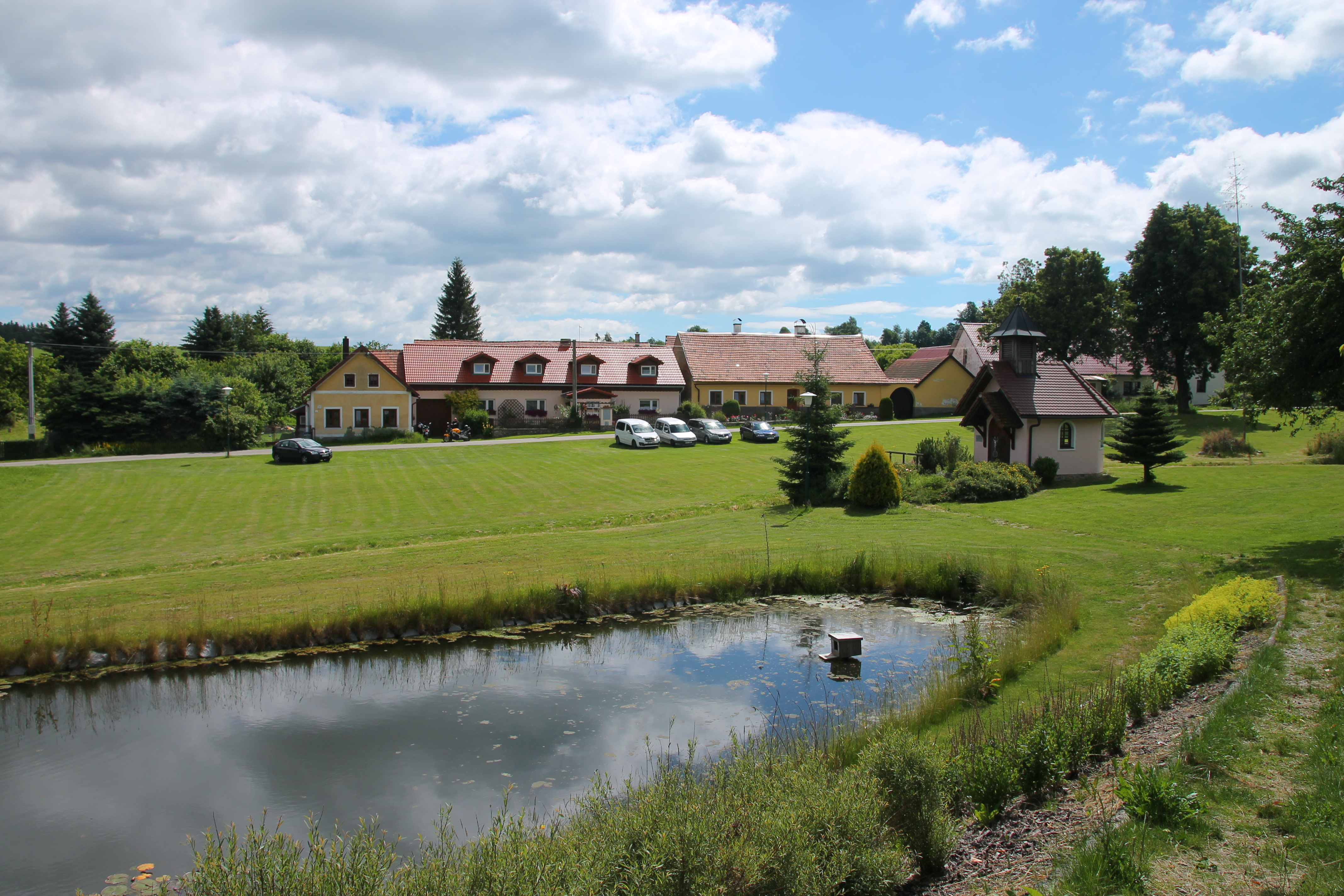 Vyšovatka, Buk